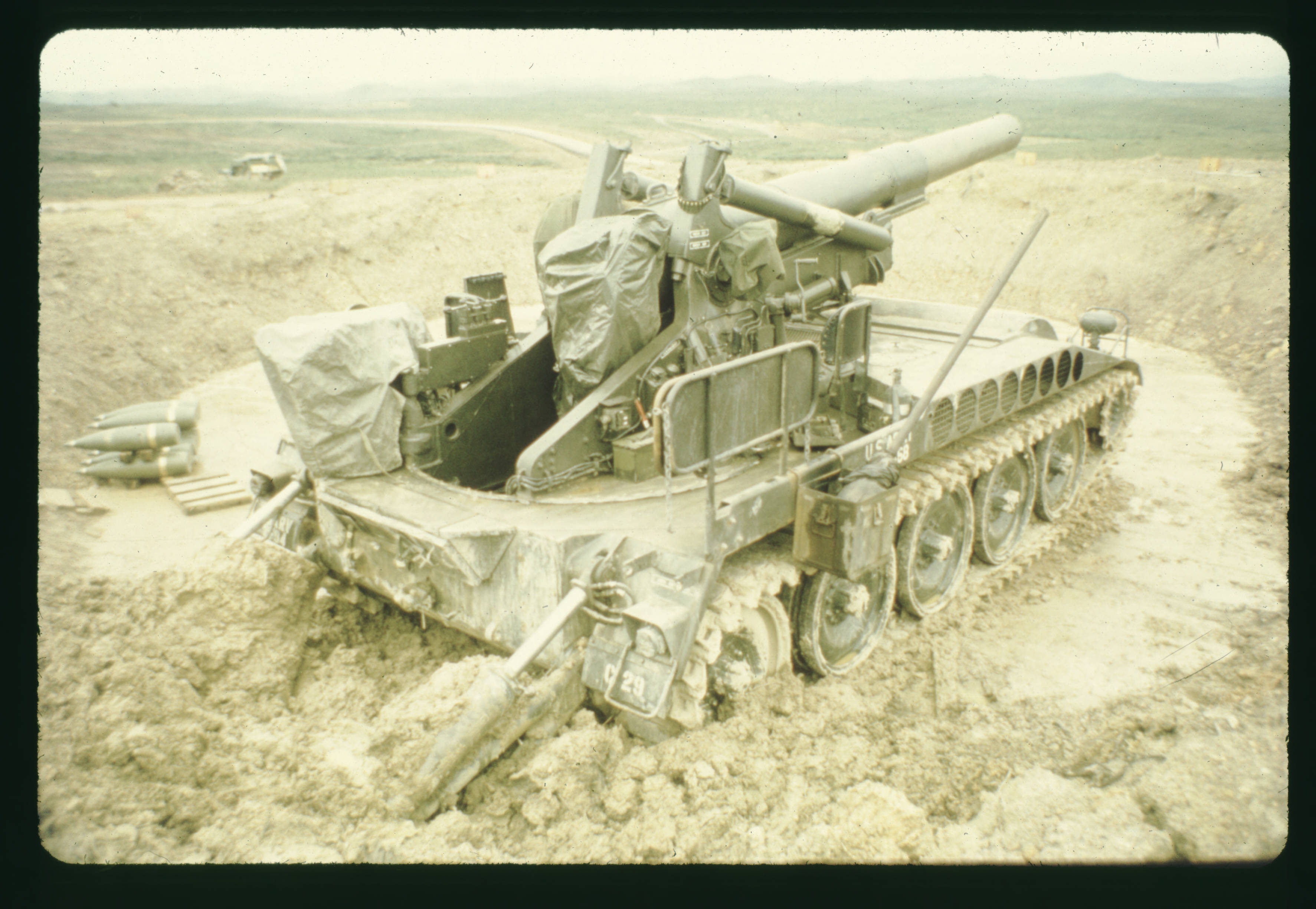 One of several artillery firing positions constructed at LZ Nancy by the 14th Engineer Battalion for the XXIV Corps Artillery